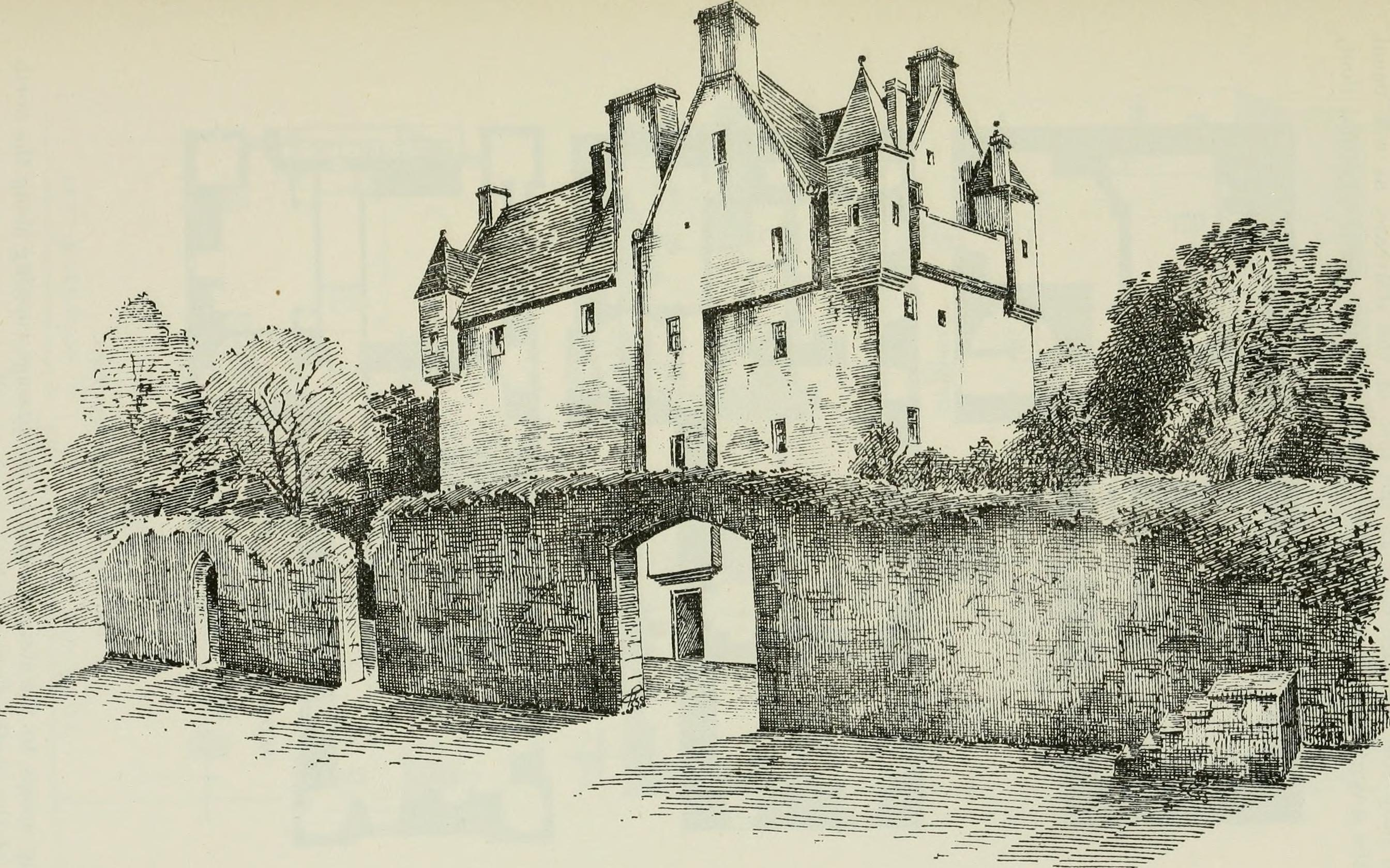 Title: The castellated and domestic architecture of Scotland, from the twelfth to the eighteenth century Year: 1887 (1880s) Authors: MacGibbon, David, d. 1902 Ross, Thomas, 1839-1930 Subjects: Architecture Architecture, Domestic Castles Publisher: Edinburgh : D. Douglas Text Appearing Before Image: s and requirements, but before carrying-out the works Mr. Heiton, the architect, made very careful plans of theold building, and through his kindness we are enabled to reproduce hismeasured drawings, and thus preserve a minute record of a very interest-ing old Scottish mansion-house. The castle is situated about three miles north-west from Dunblane.It was surrounded with enclosing walls, as is shown by the Sketch,Fig. 1414.t The structure is of the L Plan (Fig. 1415), and the mainbuilding is three stories high, with entresol floors in the north wing(Fig. 1416). There was only one staircase for the whole house, whichwas situated in the north-east corner of the wing, and was so placedas to serve the various floors with considerable efliciency. Ihere was * See Gregorys Wc8te7-)i Highlands and Isles. t This sketch is copied from a watercolour drawing made by James Drummond,R.S.A., in 1861, and the use of which was kindly obtained for us by Mr. Heiton. KILBRYDE CASTLE — 301 FOURTH PERIOD Text Appearing After Image: FOURTH PERIOD 302 — KILBRYDE CASTLE also only one entrance door at the foot of the staircase, as was usualin the seventeenth century. It conducted directly into the ground floor, •1 KlTCf^E:N j H ■ I^HHI ^^t ■ l—I V^^H ^ PASSASE 1^ ^^ ^^ ■ ■■—-Jitoi A^ii Mm i ^H IH 6F ^OL JND FLOOR li /5b ■